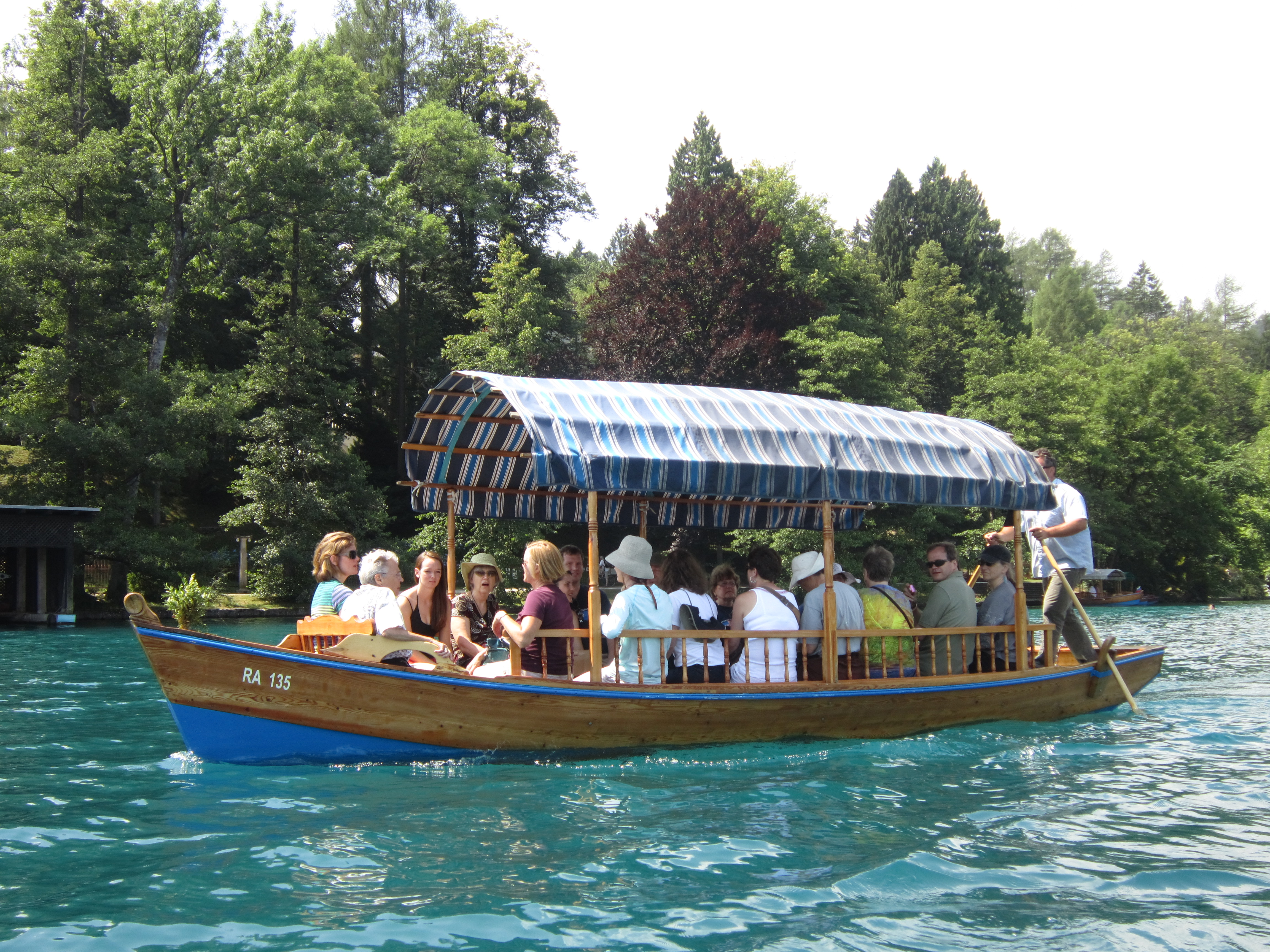 Heading across the lake